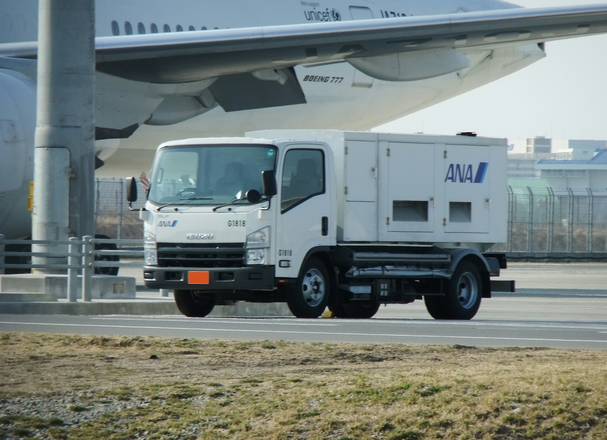 ISUZU ELF, 6th Generation vehicle, Wide-cab type, Grade ST, （It is called REWARD or N-series excluding a Japanese market.）, Ground Power Unit (ANA)